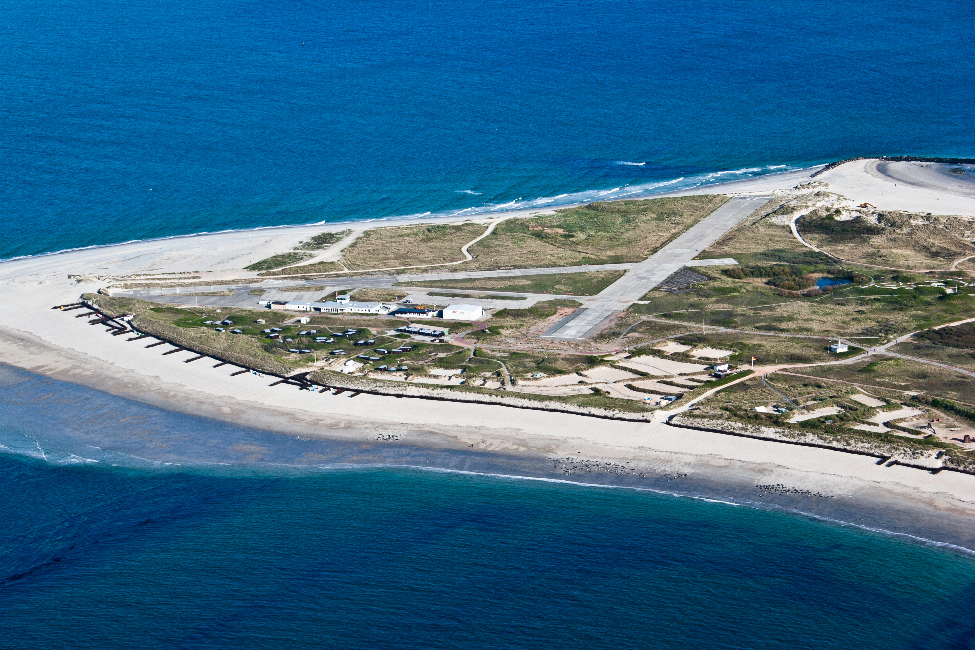 Aerial view of the island Düne with the airfield Helgoland-Düne.